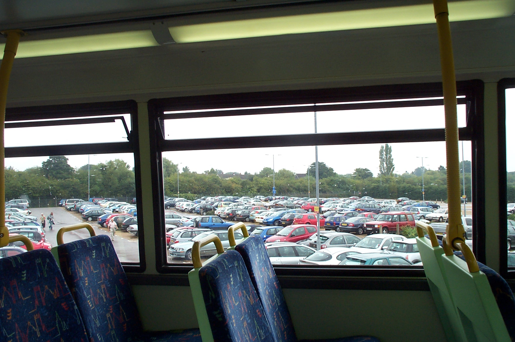 Pear Tree park and ride car park, part of Oxford park and ride network, seen from the upper deck of an Oxford Bus Company Dennis Trident 2 bus with Alexander ALX400 body on Park and Ride route 300